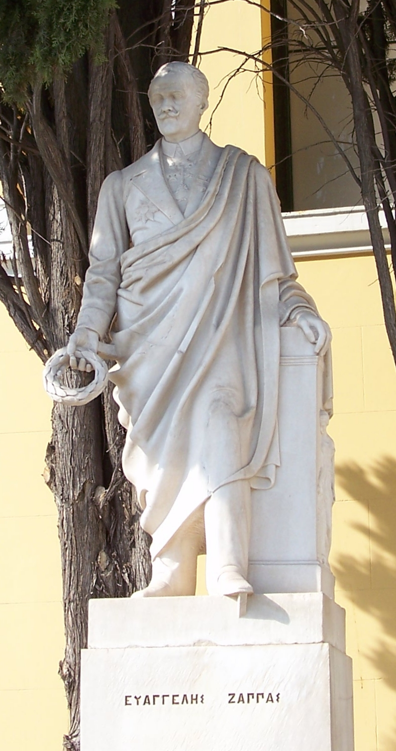 Statue of Evaggelos Zappas (Ευάγγελος, Ευαγγέλης Ζάππας) one of the Zappas brothers, outside of Zappeion Megaron, which they donated to the greek state.